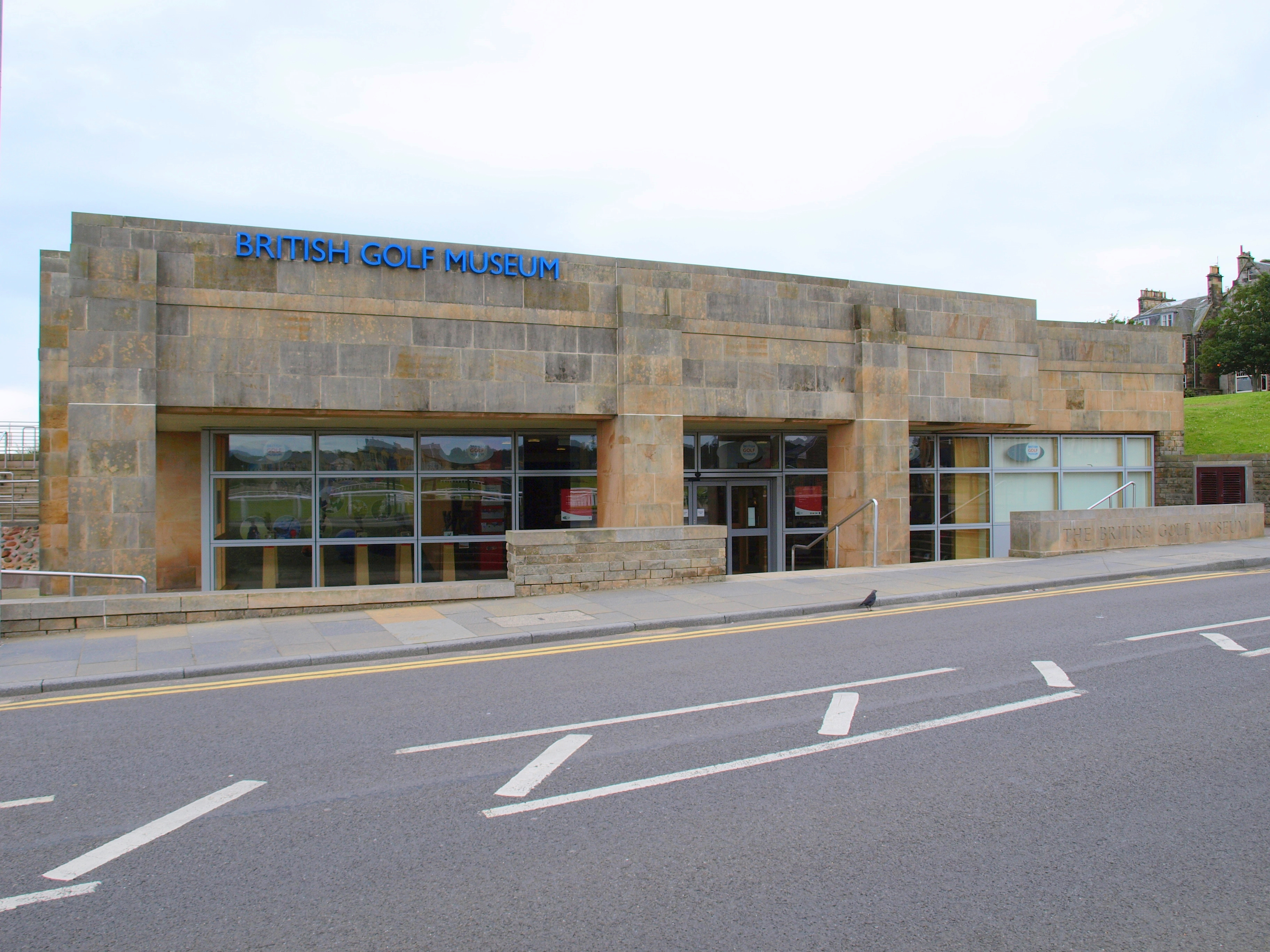 Photographer's description: "Next to the Old Course Hotel St.Andrews, this museum is mostly beneath street level."